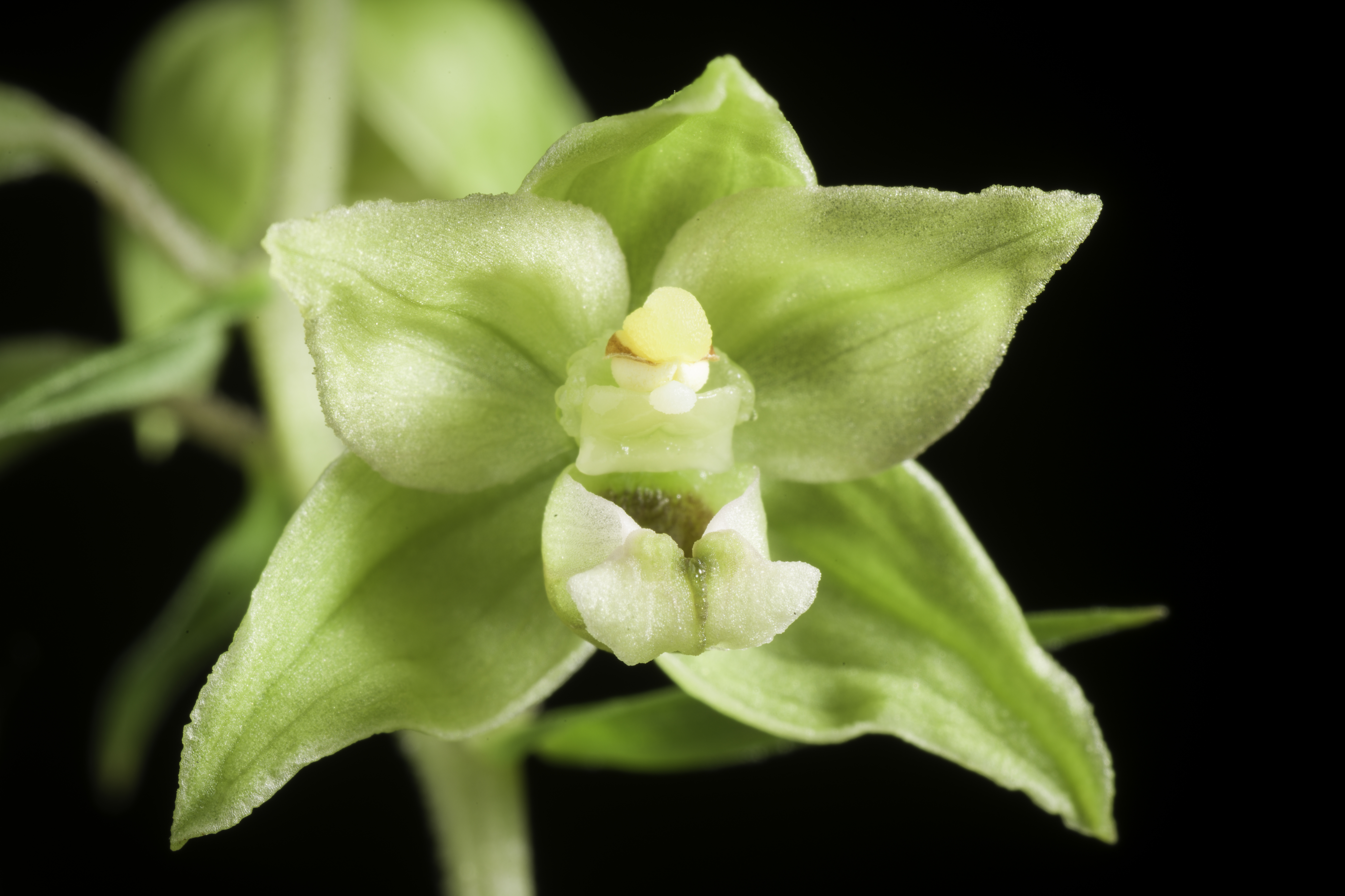 [Hokkaido, Japan / 北海道] Distribution: Russian Far East to N. Korea and Japan (31 KAM KHA KUR PRM SAK 36 CHM CHN 38 JAP KOR) Lifeform: Hemicr. or rhizome geophyte Homotypic synonyms Limodorum papillosum (Franch. & Sav.) Kuntze, Revis. Gen. Pl. 2: 671 (1891). Epipactis latifolia var. papillosa (Franch. & Sav.) Maxim. ex Kom., Fl. Manshur. 1: 523 (1901). Helleborine papillosa (Franch. & Sav.) Druce, Vierteljahrsschr. Naturf. Ges. Zürich 53: 589 (1908). Amesia papillosa (Franch. & Sav.) A.Nelson & J.F.Macbr., Bot. Gaz. 56: 472 (1913). Epipactis helleborine var. papillosa (Franch. & Sav.) T.Hashim., Proc. World Orchid Conf. 12: 120 (1987). Heterotypic synonyms Epipactis sayekiana Makino, J. Jap. Bot. 2: 22 (1918). Serapias sayekiana (Makino) Makino, J. Jap. Bot. 6: 8 (1929). Epipactis papillosa var. sayekiana (Makino) T.Koyama & Asai, J. Jap. Bot. 33: 226 (1958). Epipactis helleborine var. sayekiana (Makino) T.Hashim., Proc. World Orchid Conf. 12: 121 (1987). Epipactis papillosa var. imkoeensis Y.N.Lee & K.S.Lee, Bull. Korea Pl. Res. 2: 38 (2002).